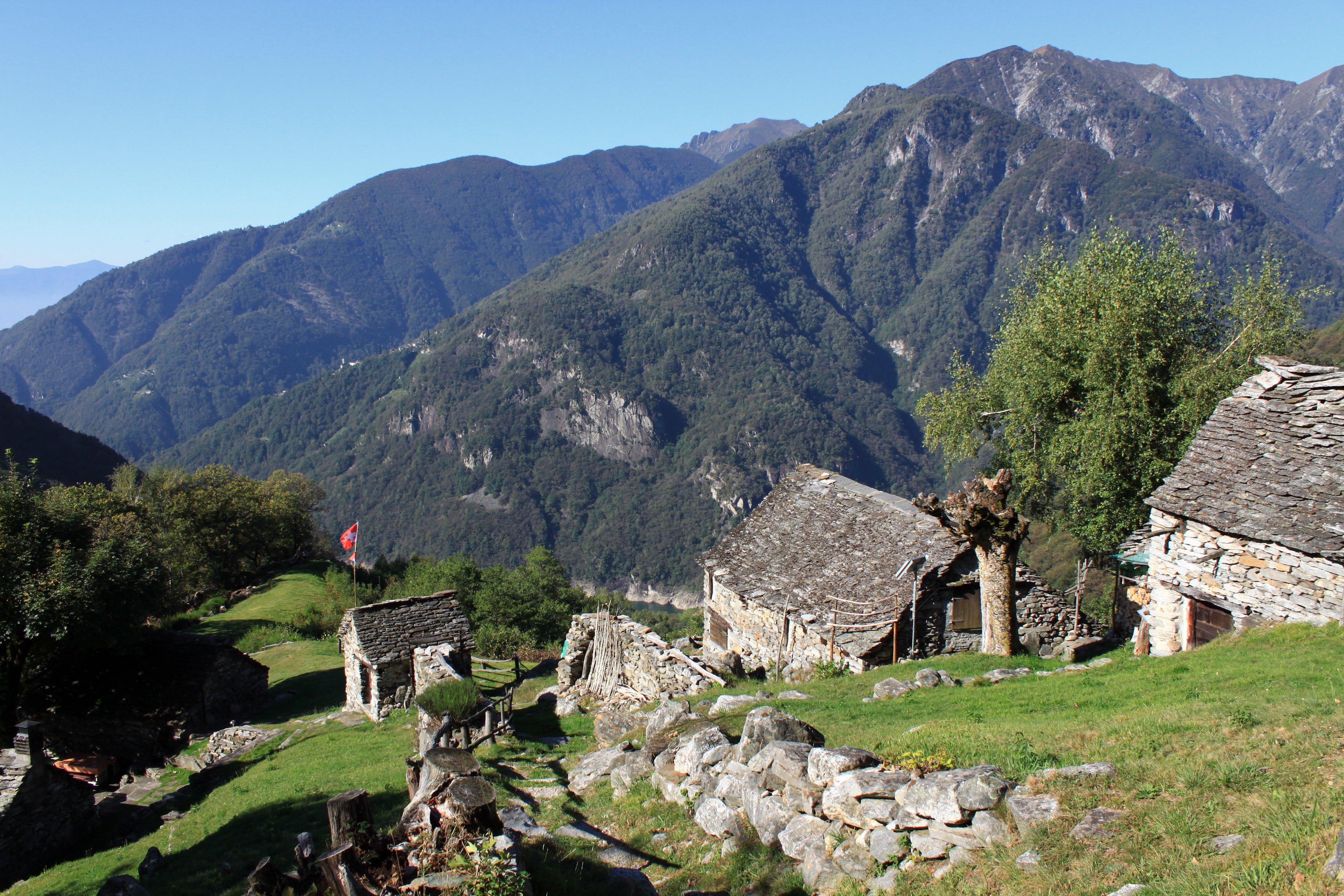 Mountain Madone and steep Verzasca valley from Stavello stone houses. A view to village Mergoscia from far and the rocks in the forest above Lago di Vogorno.